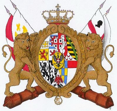 Arms of the Kingdom of Sardinia 1730